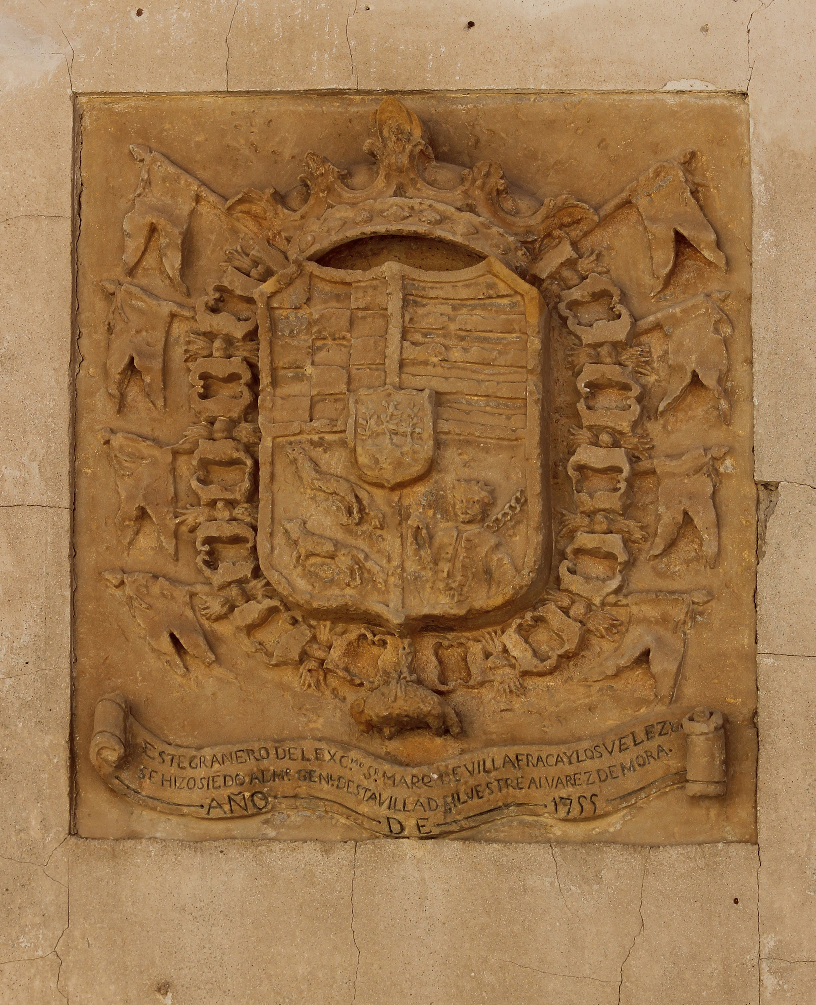 Coats of Arms of Marquisate of Villafranca and Los Vélez engraved on the wall on the granary of Marquis of Vélez, Alhama de Murcia. The engraving is an item, of cultural interest.